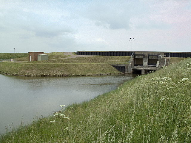 Lawyers Sluice. Lawyers sluice. Draining the land water to the sea